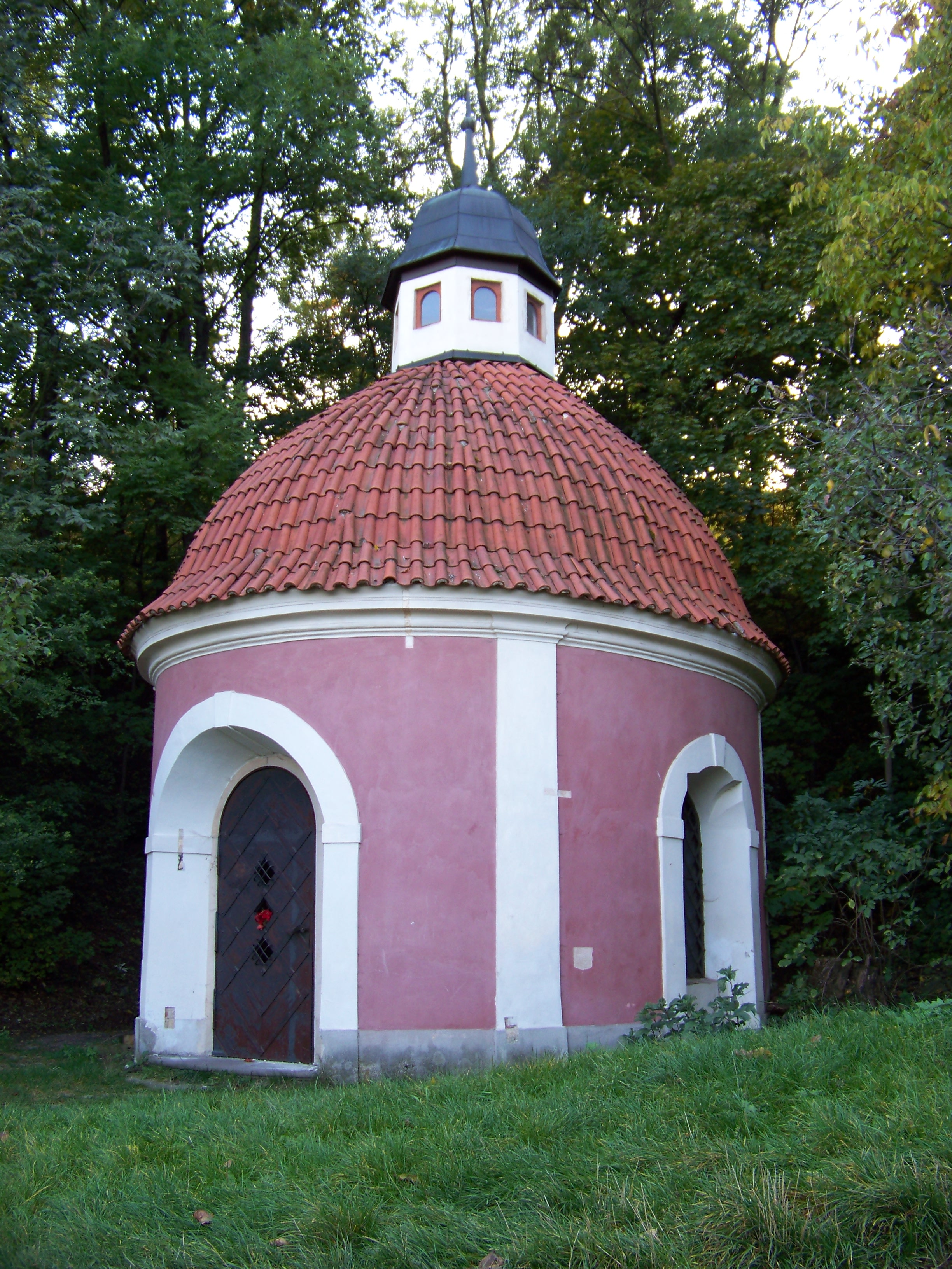 Prague-Malá Strana, the Czech Republic. Petřín hill, Seminary Garden, a chapel.